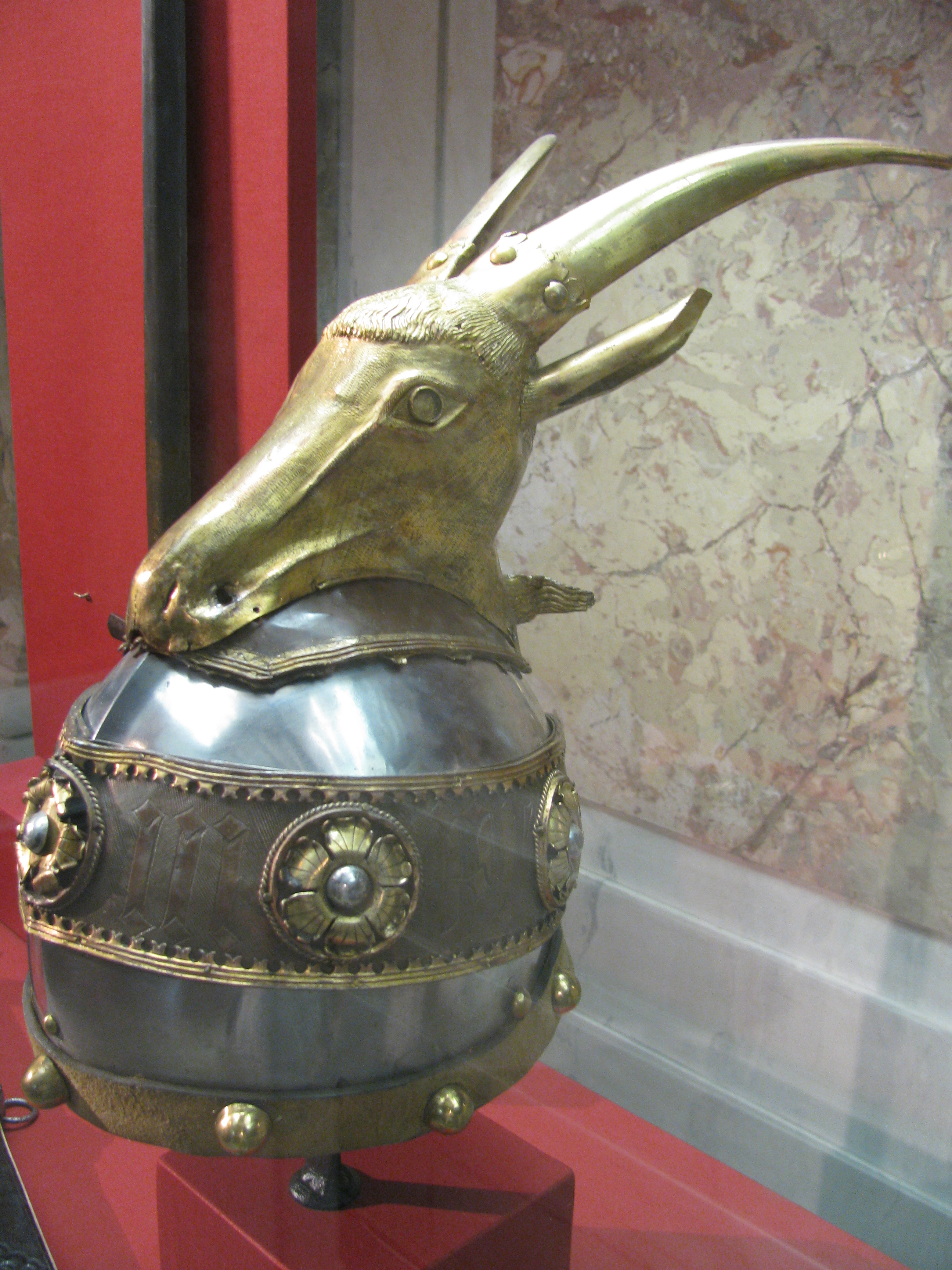 Helmet of Skanderbeg in Vienna, attributed